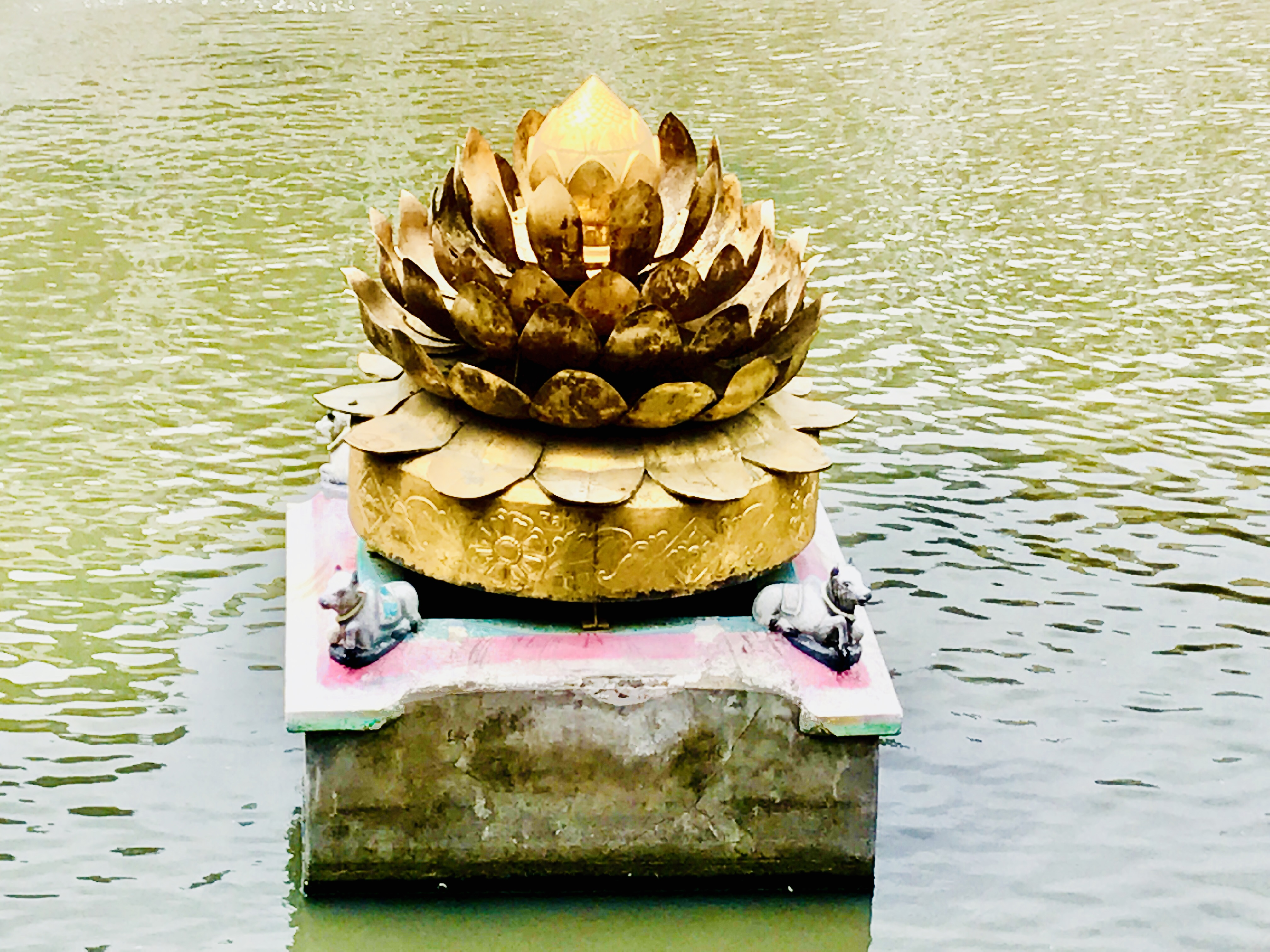 Golden Lotus in Meenakshi Amman Temple